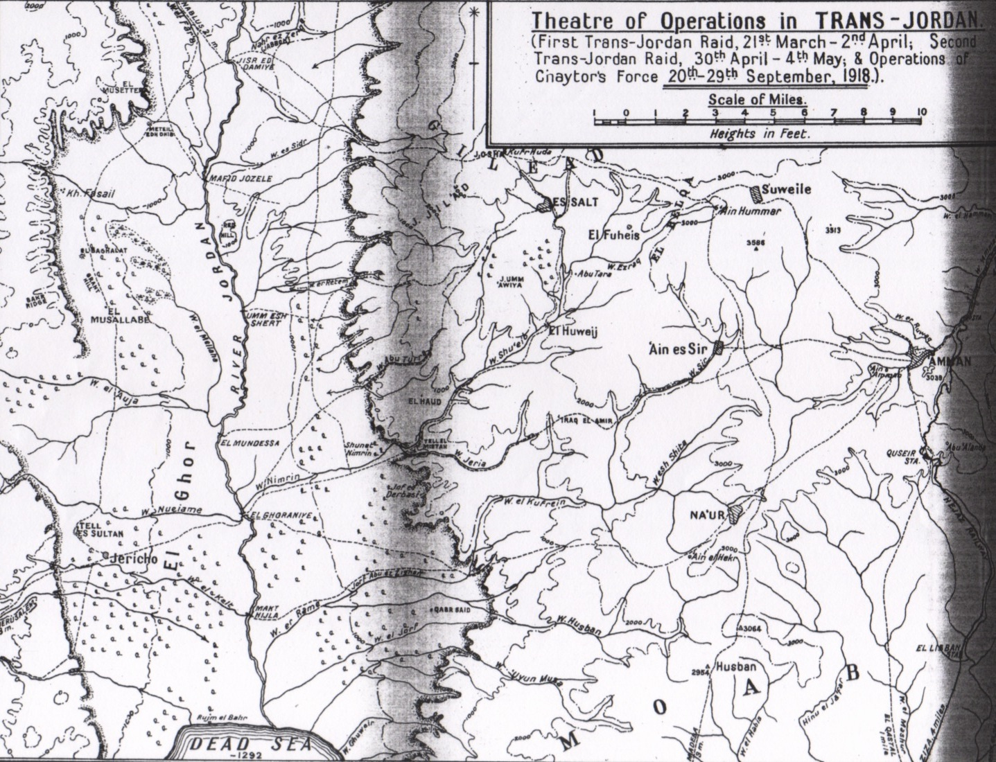 Sketch map of Transjordan theatre of operations in 1918